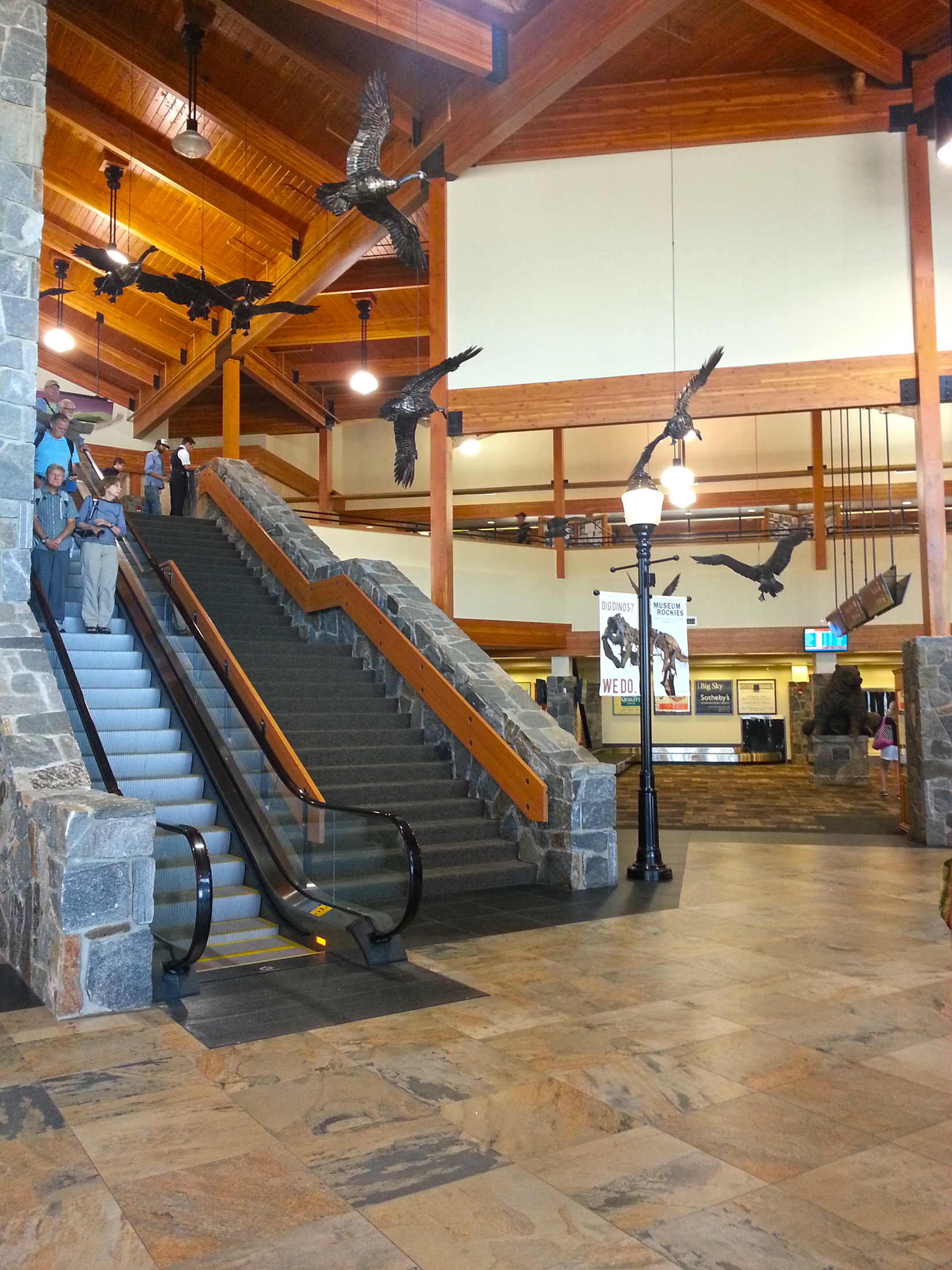 Interior shot looking at the escalator of the addition at the Bozeman-Yellowstone International Airport near Bozeman, Montana. The airport was half this size 10 years ago, but the immense amount of private jet traffic (most of it headed for the Yellowstone Club ultra-wealthy enclave nearby) led to the airport's expansion. Most "commoner" traffic now uses the four gates in the addition.